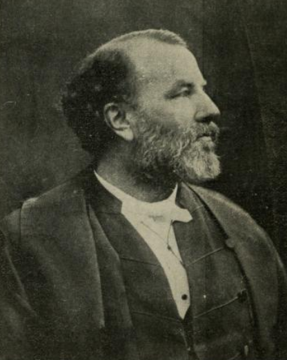 U. S. Civil War soldier in the 76th Regiment of the Army of the Northern States; Judge at the Superior Court of Quebec (1902 - 1909) and the District of Montreal (1909 - 1916)